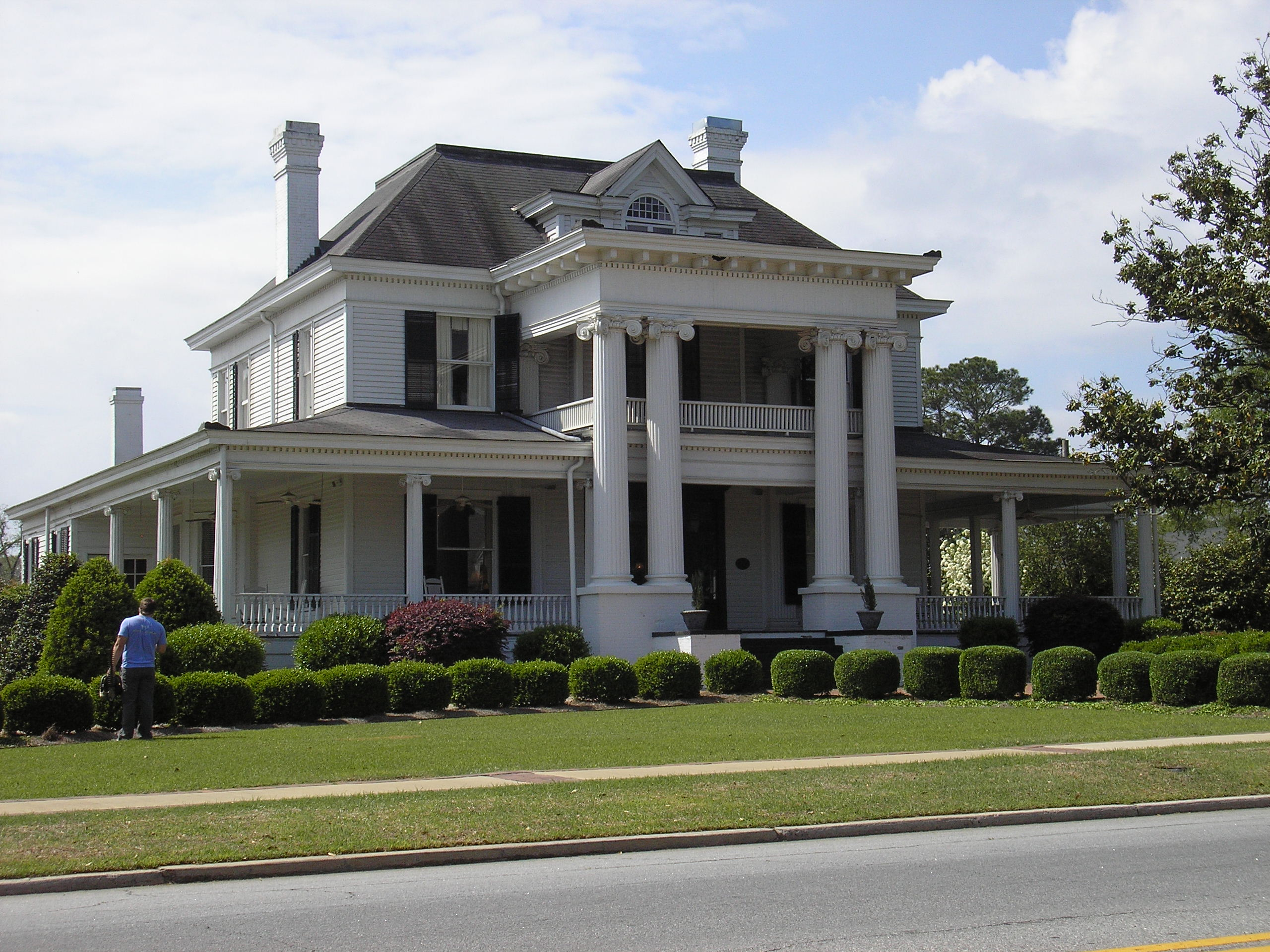 James Price McRee House